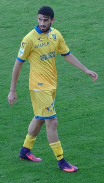 Luca Paganini, Frosinone football player